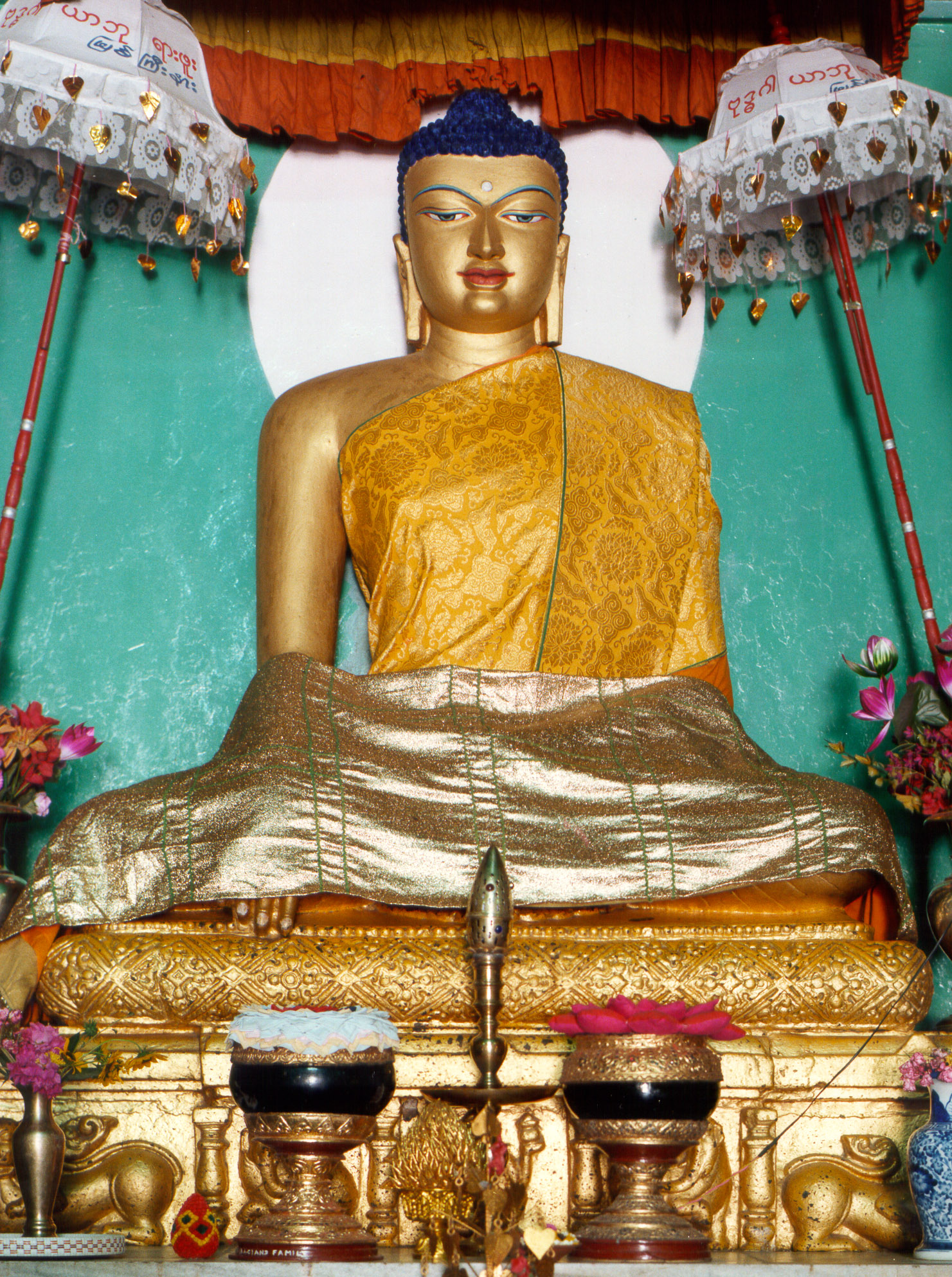 Main image of Śākyamuni Buddha within the Mahabodhi Temple at Bodhgaya, Bihar, India